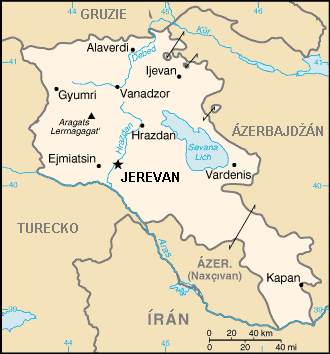 Czech map of Armenia, based on the CIA World Factbook.